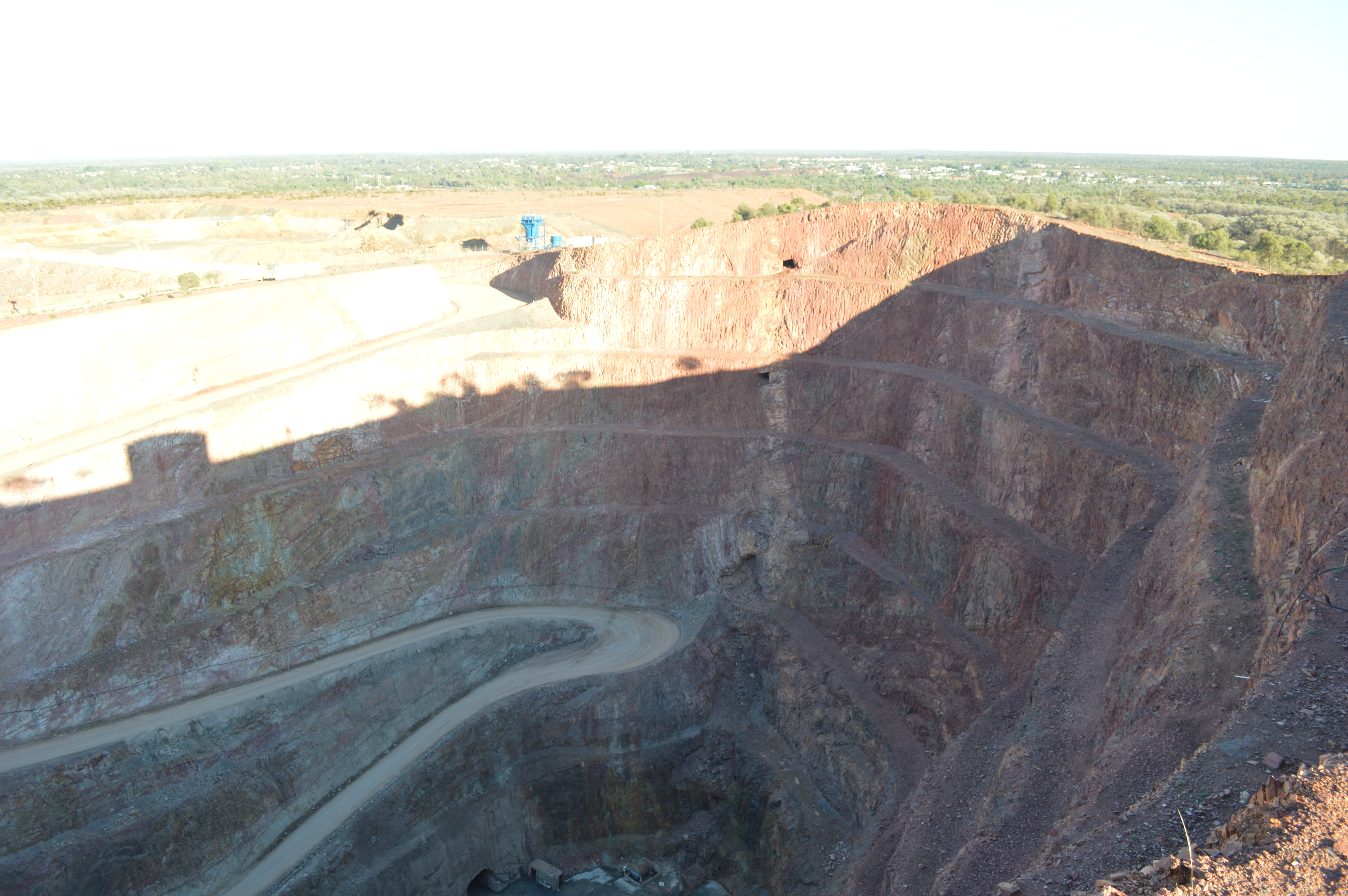 New Cobar Gold Mine at Cobar, New South Wales as seen from Fort Bourke Hill